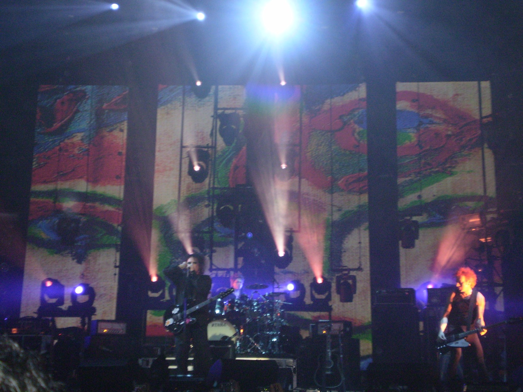 The Cure Live in Rome